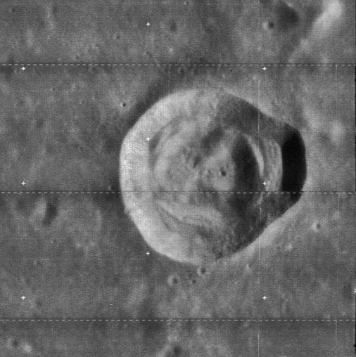 Carrel lunar crater - Lunar Orbiter IV image LO4-085-h2